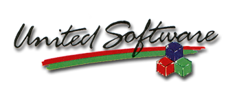 Logo of United Software GmbH 1990-94, former Ariolasoft GmbH